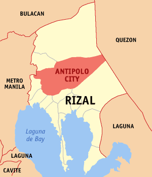 Locator map of Antipolo City in Rizal, Philippines.